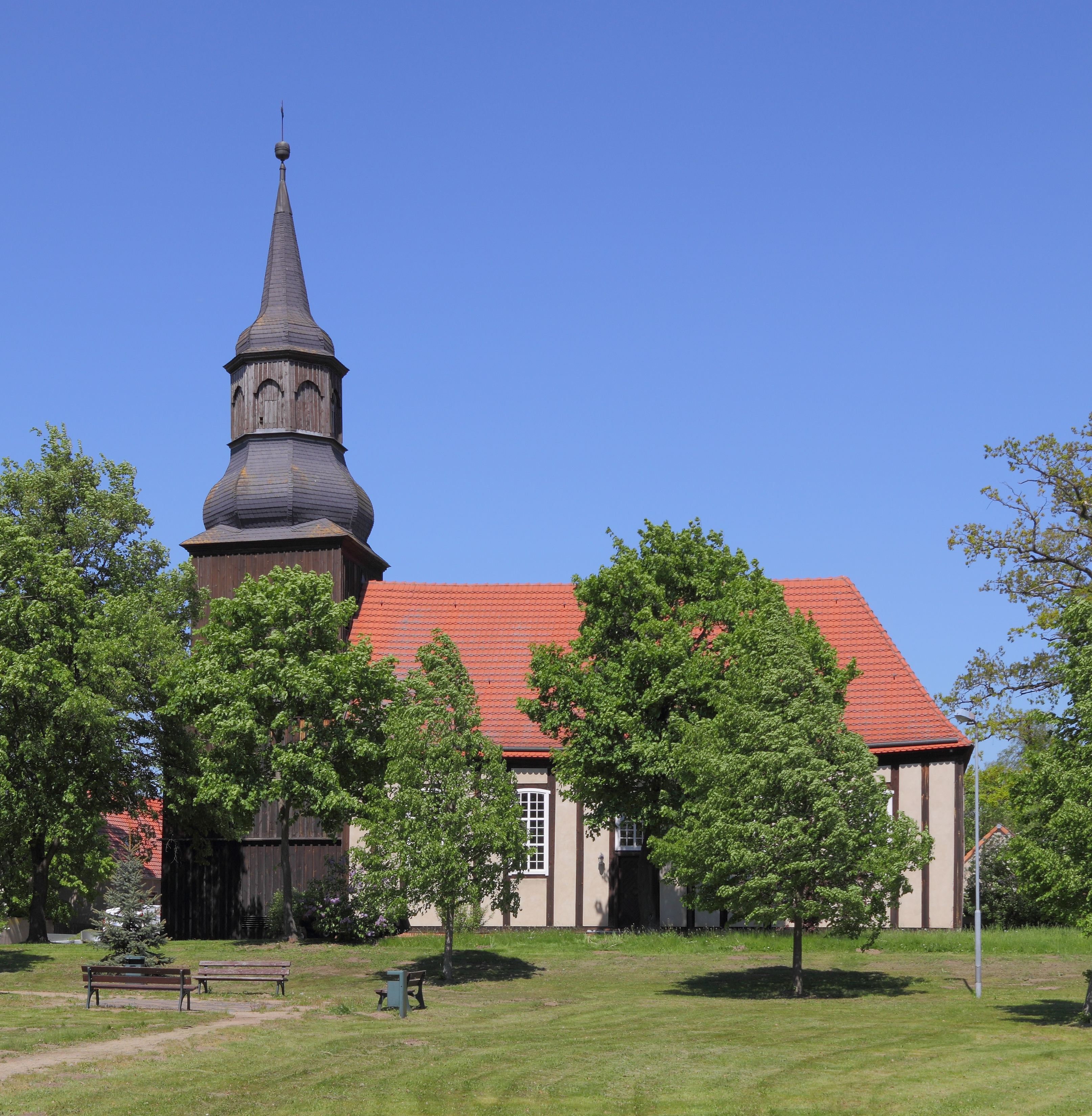 Village church in Karwesee, Fehrbellin municipality, Ostprignitz-Ruppin district, Brandenburg state, Germany